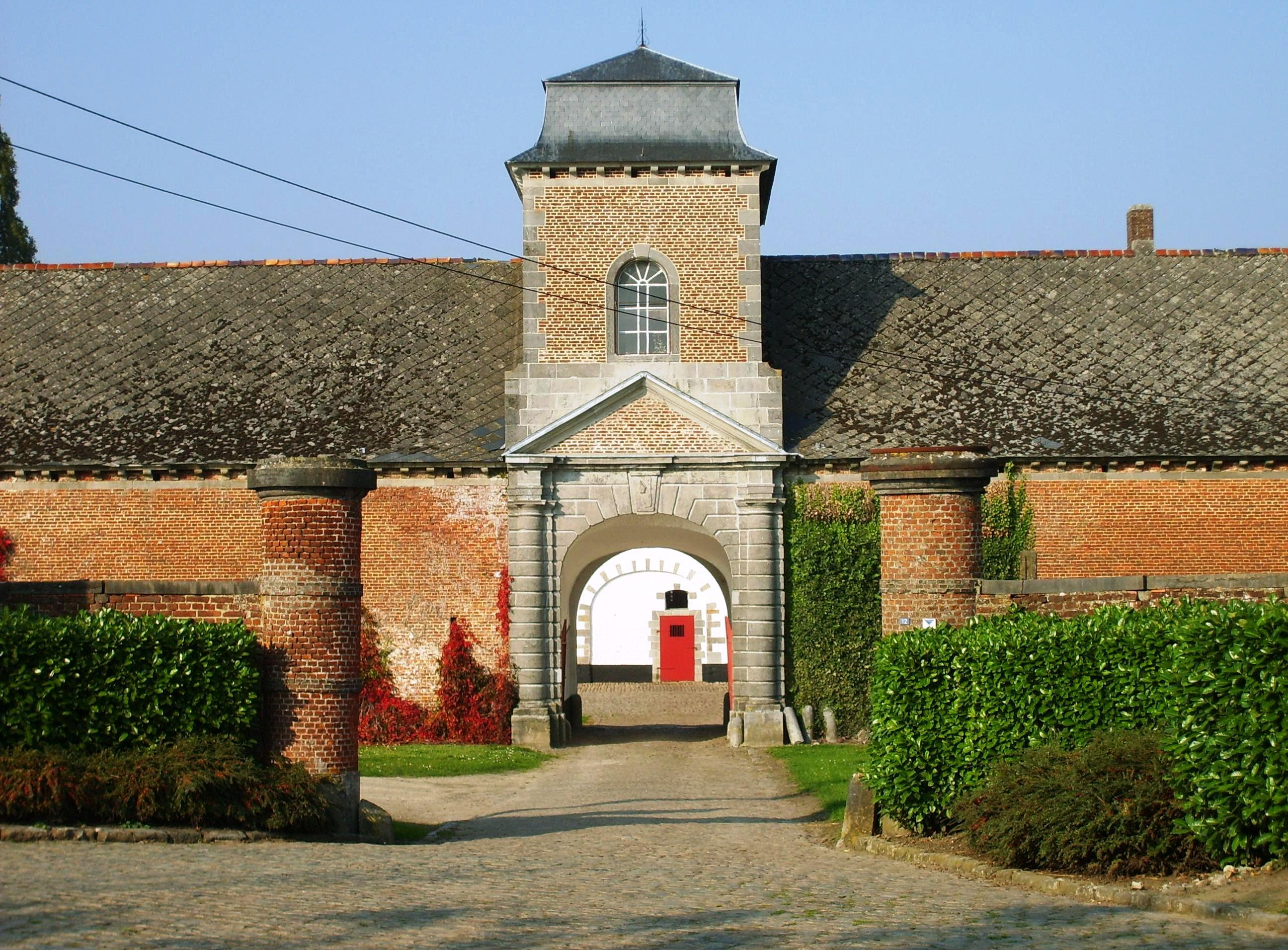 Bonne-Espérance Abbey, Vellereille-les-Brayeux (Belgium), the porch of the old barnyard (18th century).